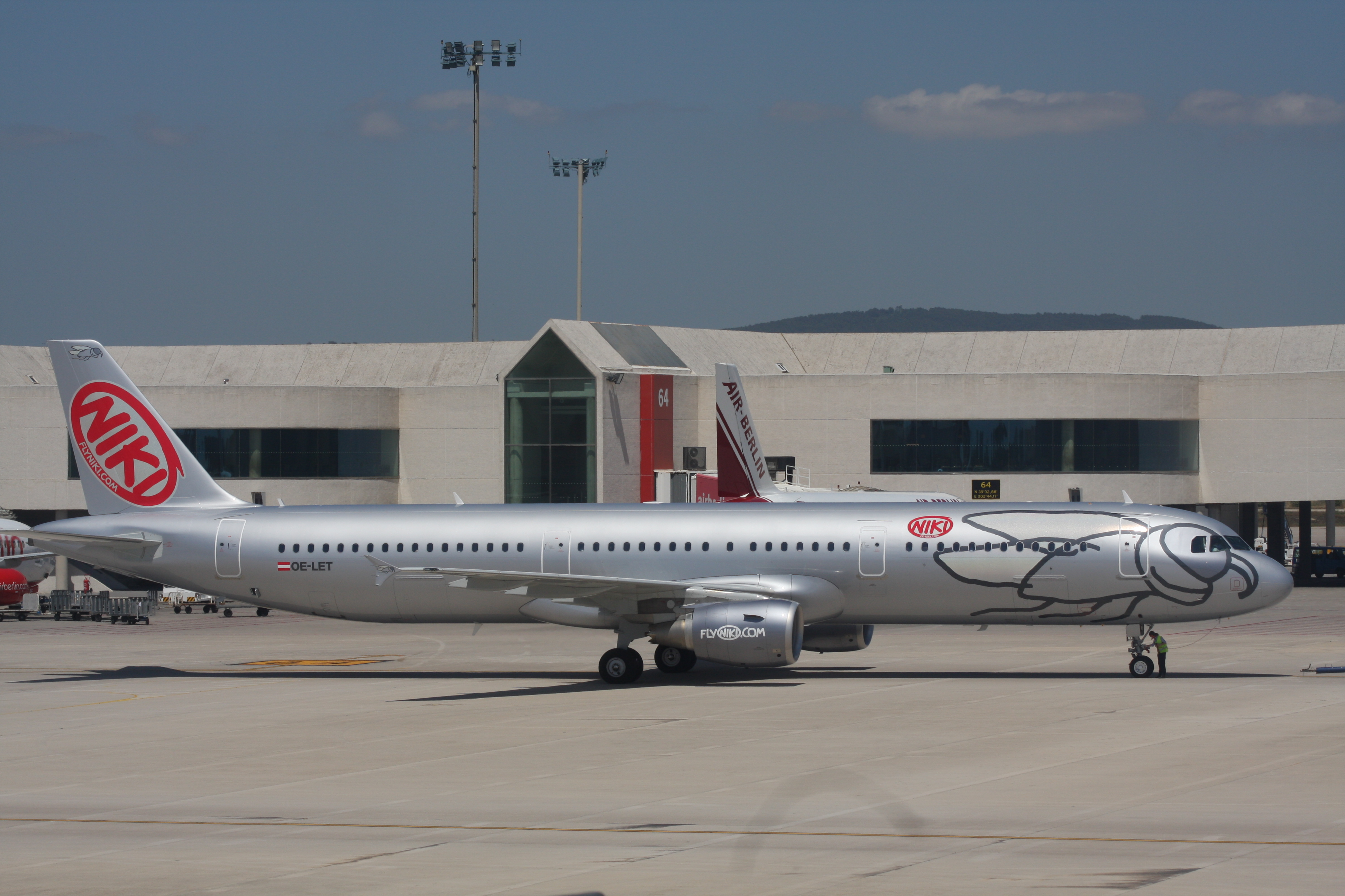 A 321 (Registration OE-LET) of the Austrian airline Niki, seen at Palma de Mallorca Airport